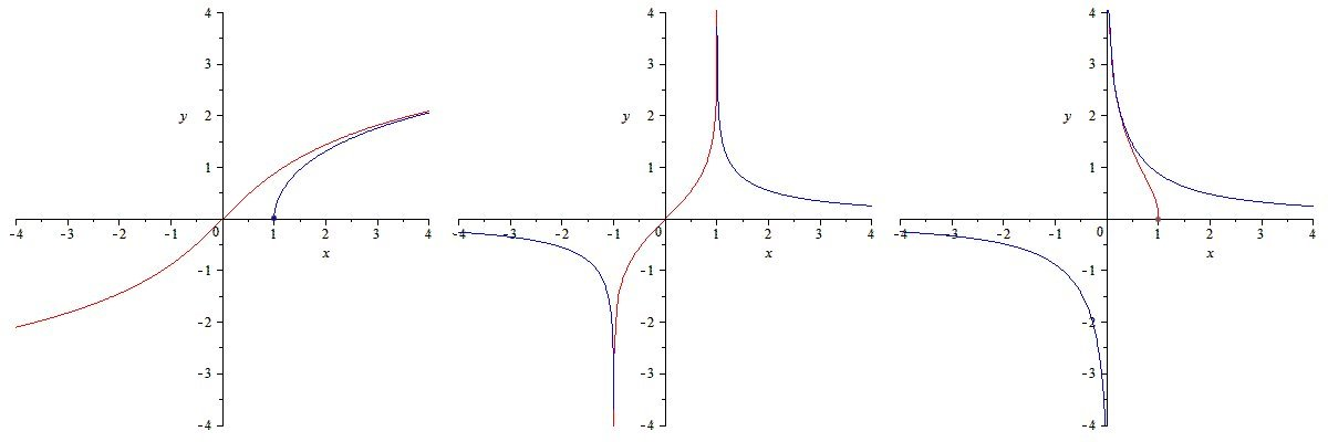 Plot of the six area hyperbolic functions: left arsinh(x) and arcosh(x), center: artanh(x) and arcoth(x), right: arsech(x) and arcsch(x)